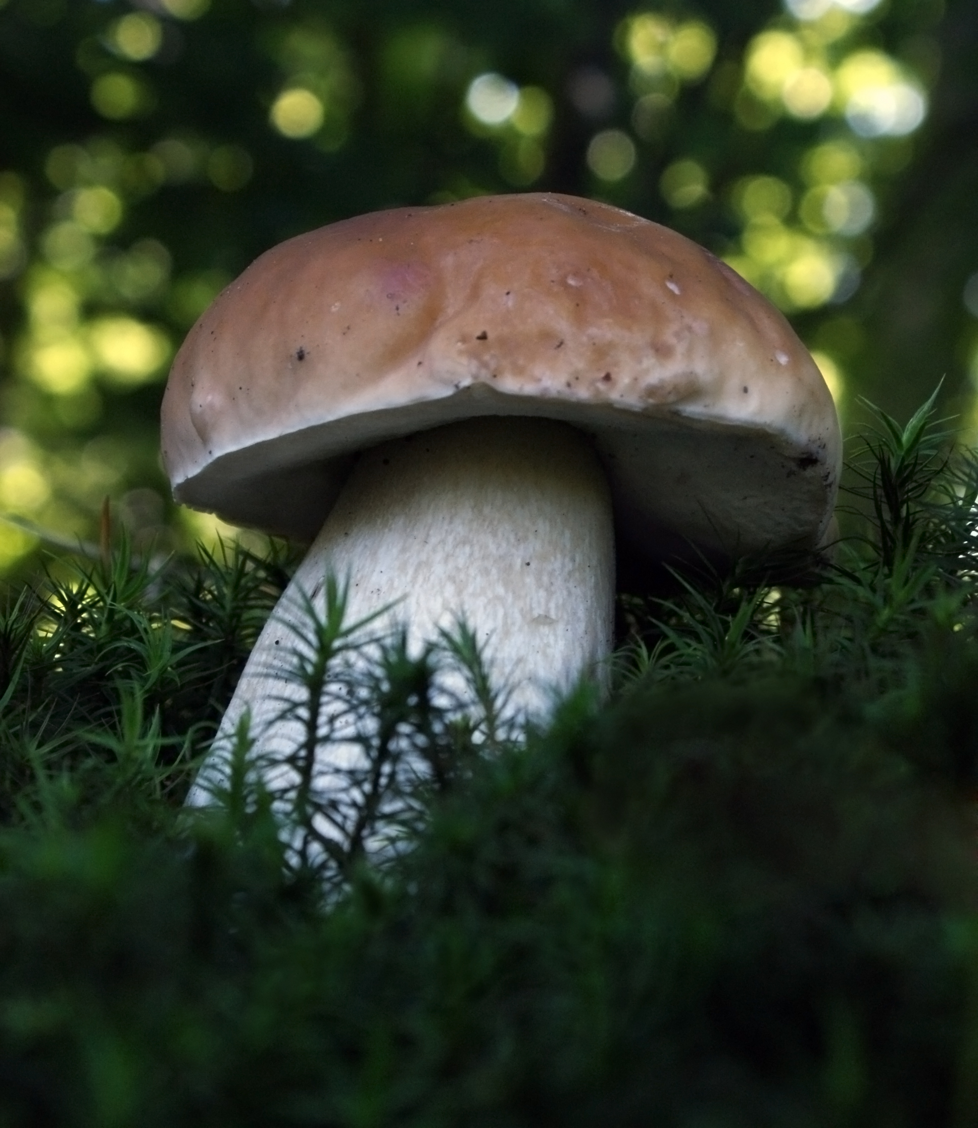 Boletus edulis. Tuchola Forest, Poland.